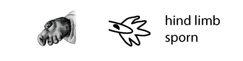 Standard Event System character depiction